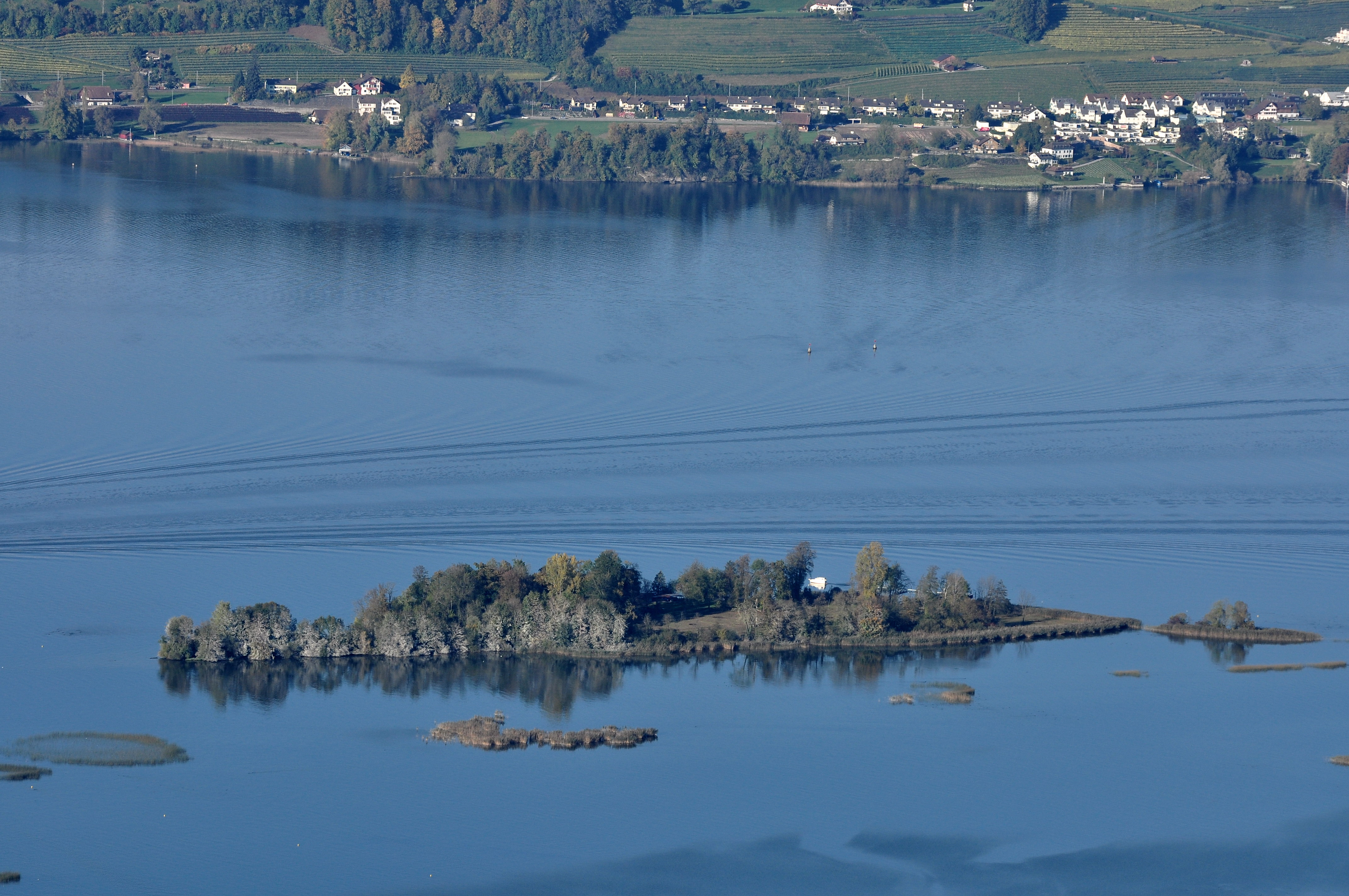 View from the Etzel mountain in Switzerland : Lützelau on Zürichsee, Feldbach on lakeshore in the background.